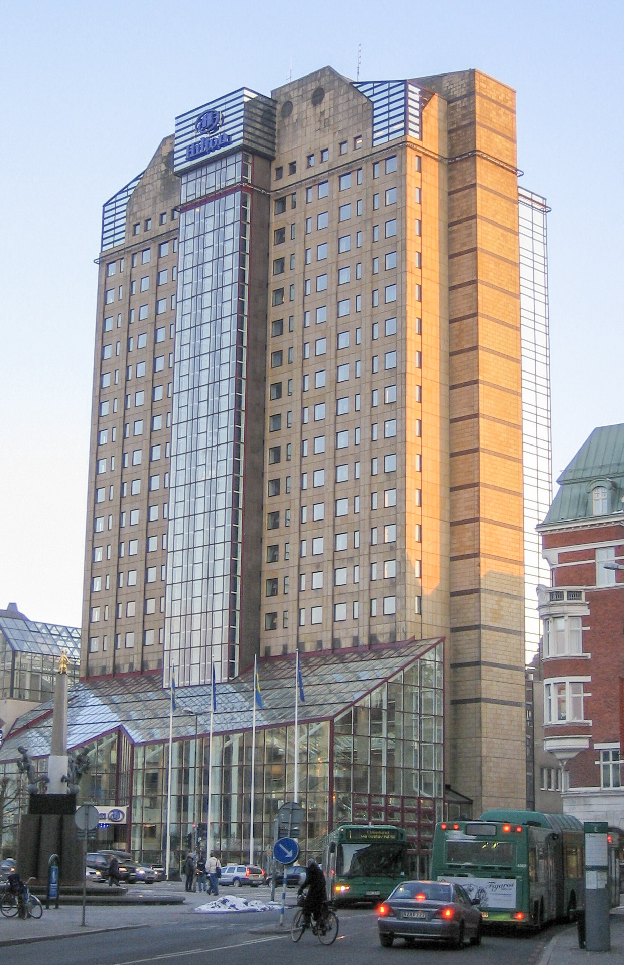 Hotell Triangeln, when it was called Hilton, situated in the city of Malmo. Photographed 14 March 2006.